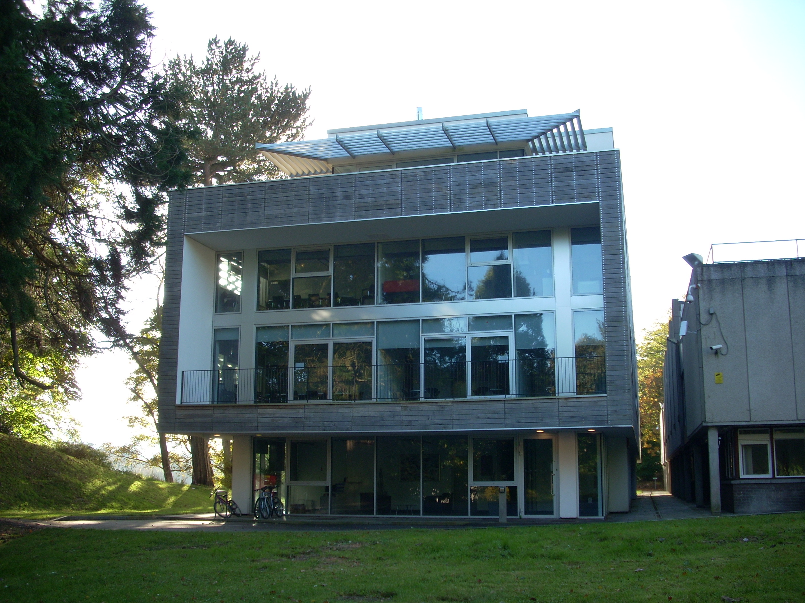 Central Services building, Garthdee campus, The Robert Gordon University. The building opened in 2008 and houses administrative departments of the university such as Human Resources.